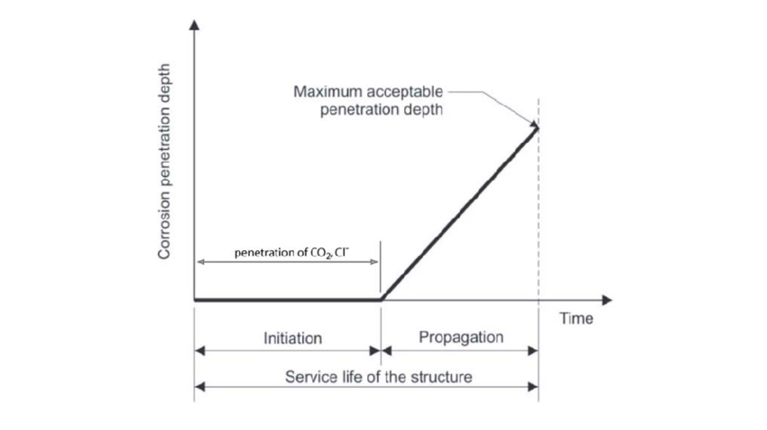 Graphical representation of initiation and propagation periods, the two phases characterizing the service life of a reinforced concrete structure in relation to the corrosion of steel reinforcement.